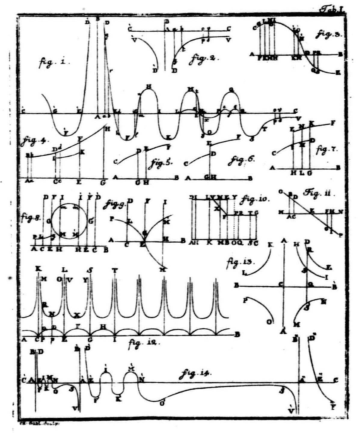 Figures 1 through 14 found at the end of Theoria Philosophiæ Naturalis.